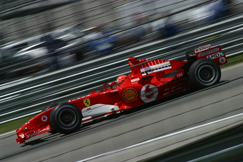 Michael Schumacher driving for Ferrari at the 2005 United States Grand Prix.